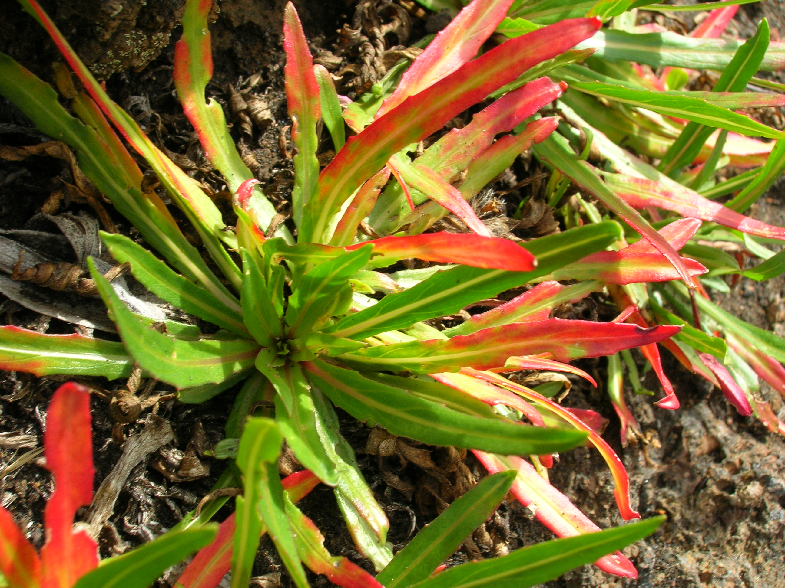 Oenothera stricta subsp. stricta (habit). Location: Maui, Puu Maile Haleakala National Park